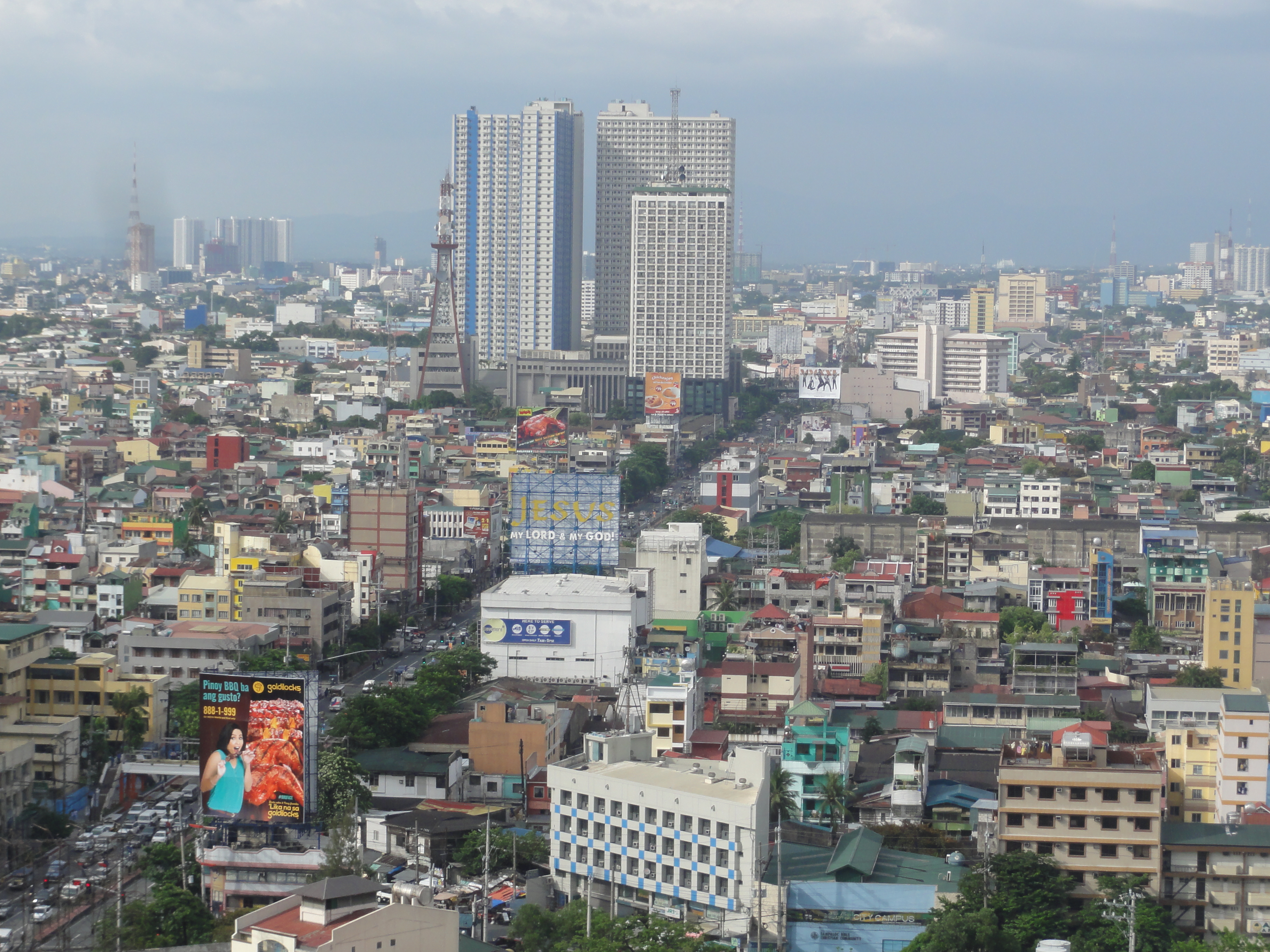 Aerial view of España area in Sampaloc, Manila as of June 2015.